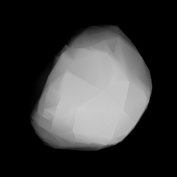 3D convex shape model of 4222 Nancita, computed using light curve inversion techniques. J. Hanuš, J. Ďurech, M. Brož, B. D. Warner (June 2011). "A study of asteroid pole-latitude distribution based on an extended set of shape models derived by the lightcurve inversion method". Astronomy and Astrophysics 530: A134. ISSN 0004-6361. arXiv